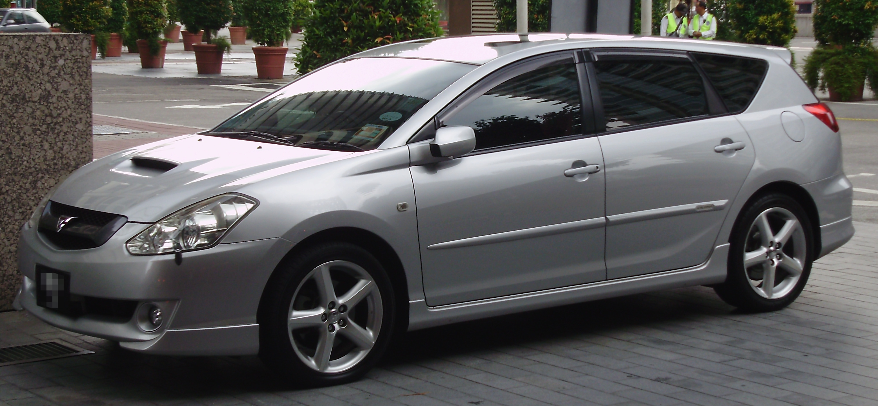 Front quarter view of a third generation GT-Four Toyota Caldina in Kuala Lumpur, Malaysia.